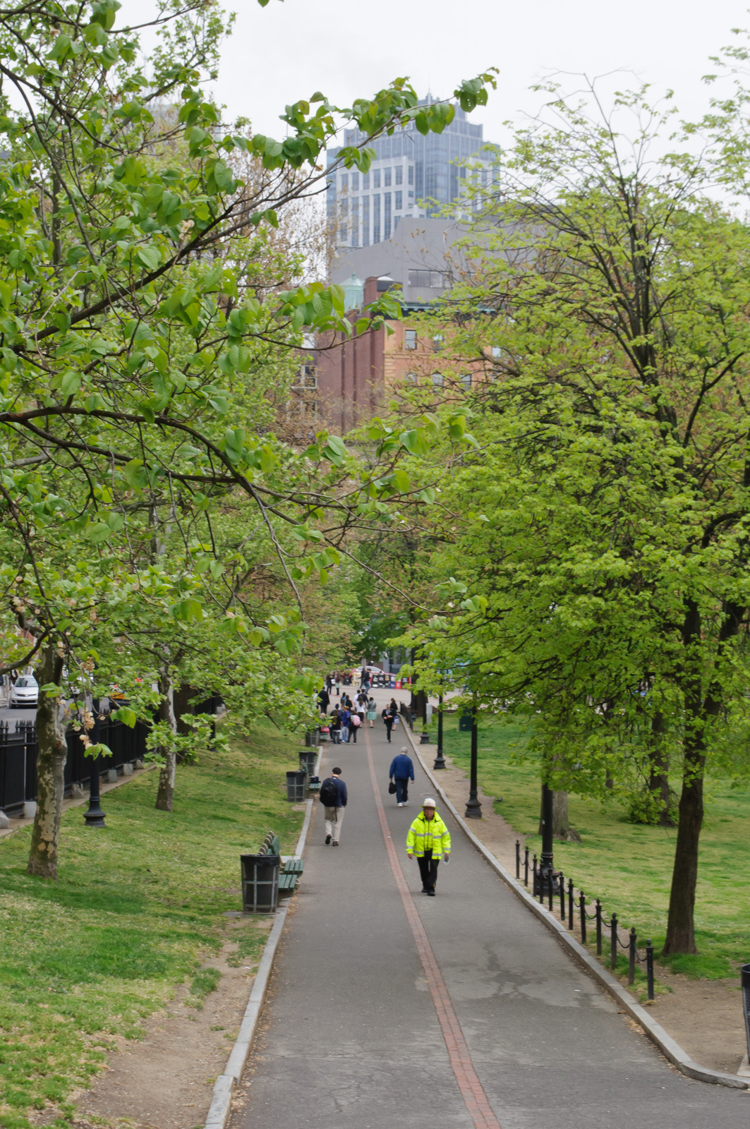 In the Boston area, urban planning often followed that of 17th Century England, where the settlers hailed from. Boston Common is one such feature; in English towns, a "common" is a common area of land that the residents could use on a communal basis for agricultural, grazing, and other uses. Boston Common has the distinction of being America's oldest urban park, dating back to 1634. Boston Common is also the southern terminus of the Freedom Trail, which meanders through downtown to connect various historical points of interest. Its northern terminus is across the Charles River at Bunker Hill. The trail is marked with red bricks (as seen here) or with a red painted line.